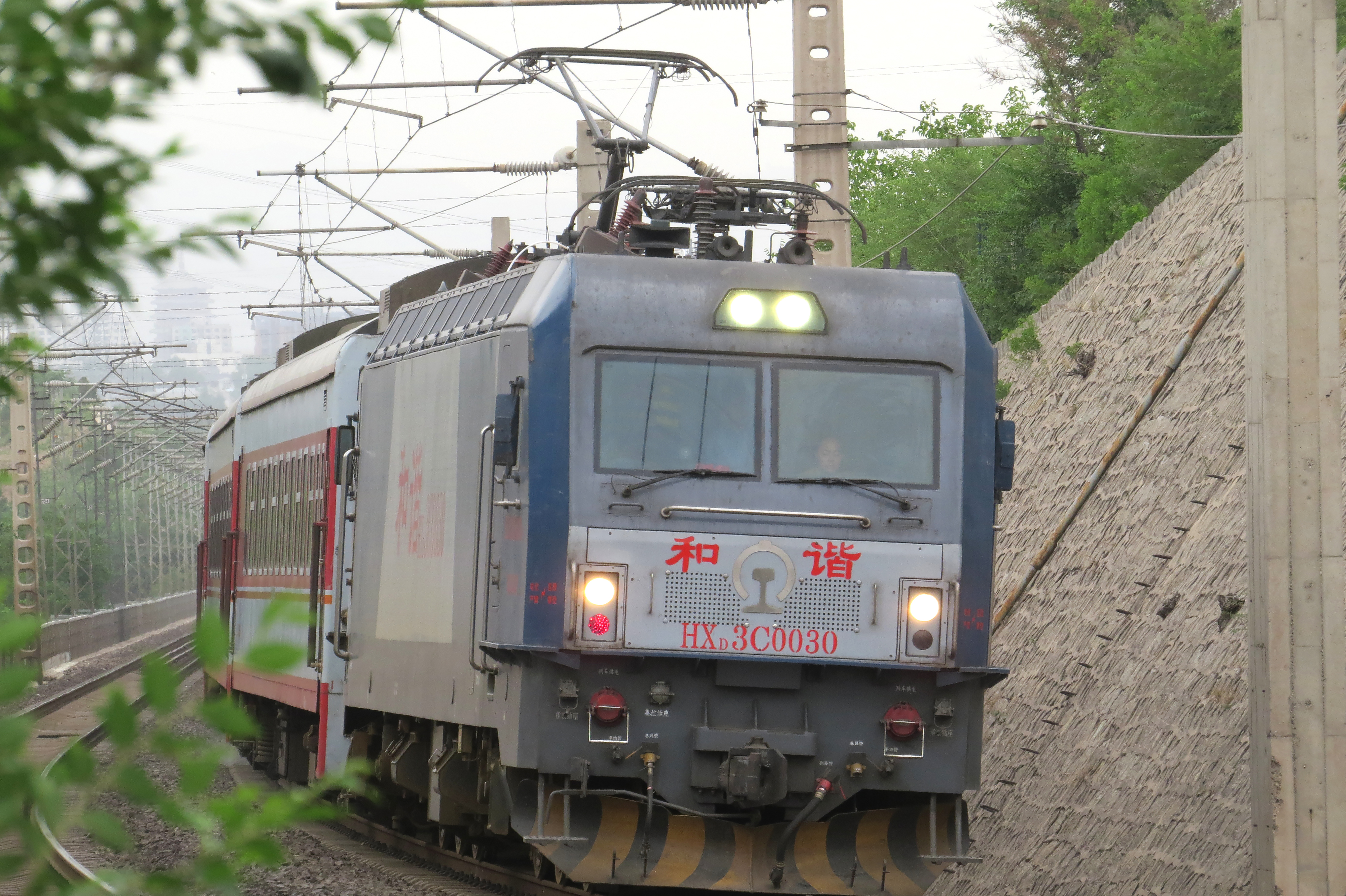 K589 to Chongqing (Caiyuanba).